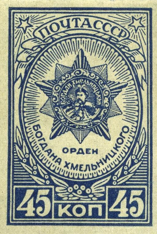 A USSR stamp, Awards of the Soviet Union. Order of Bogdan Khmelnitsky.